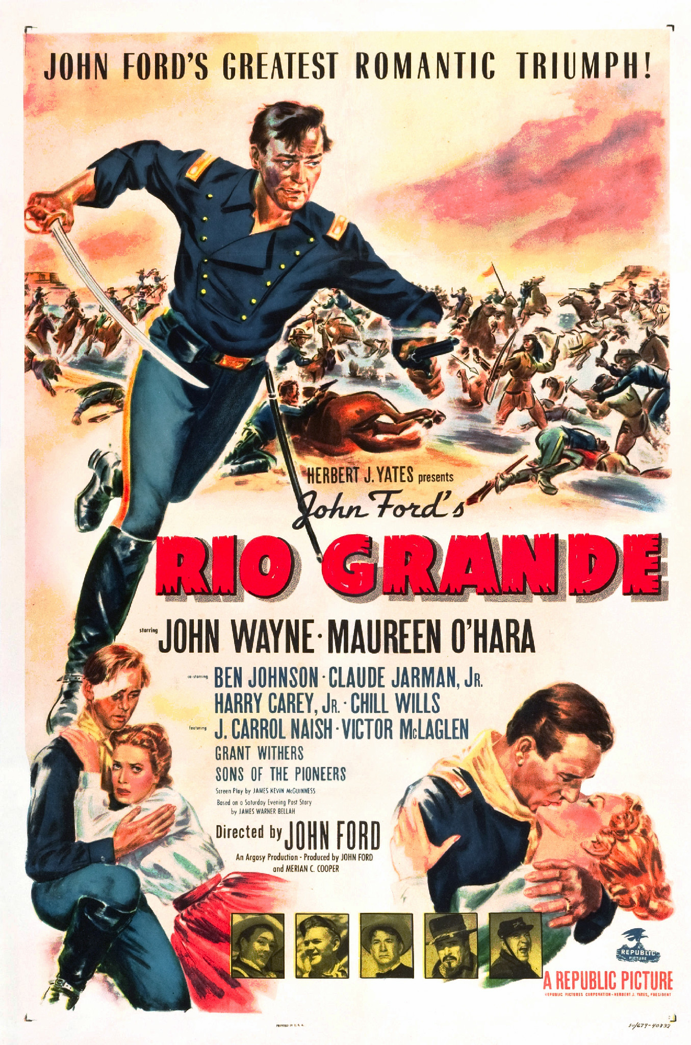 Poster for the 1950 film Rio Grande. The item has no copyright markings on it as can be seen in the links above. At bottom is Printed in USA and 50/679-40832.